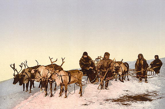 Traveling by reindeer, Archangel, Russia, about 1900